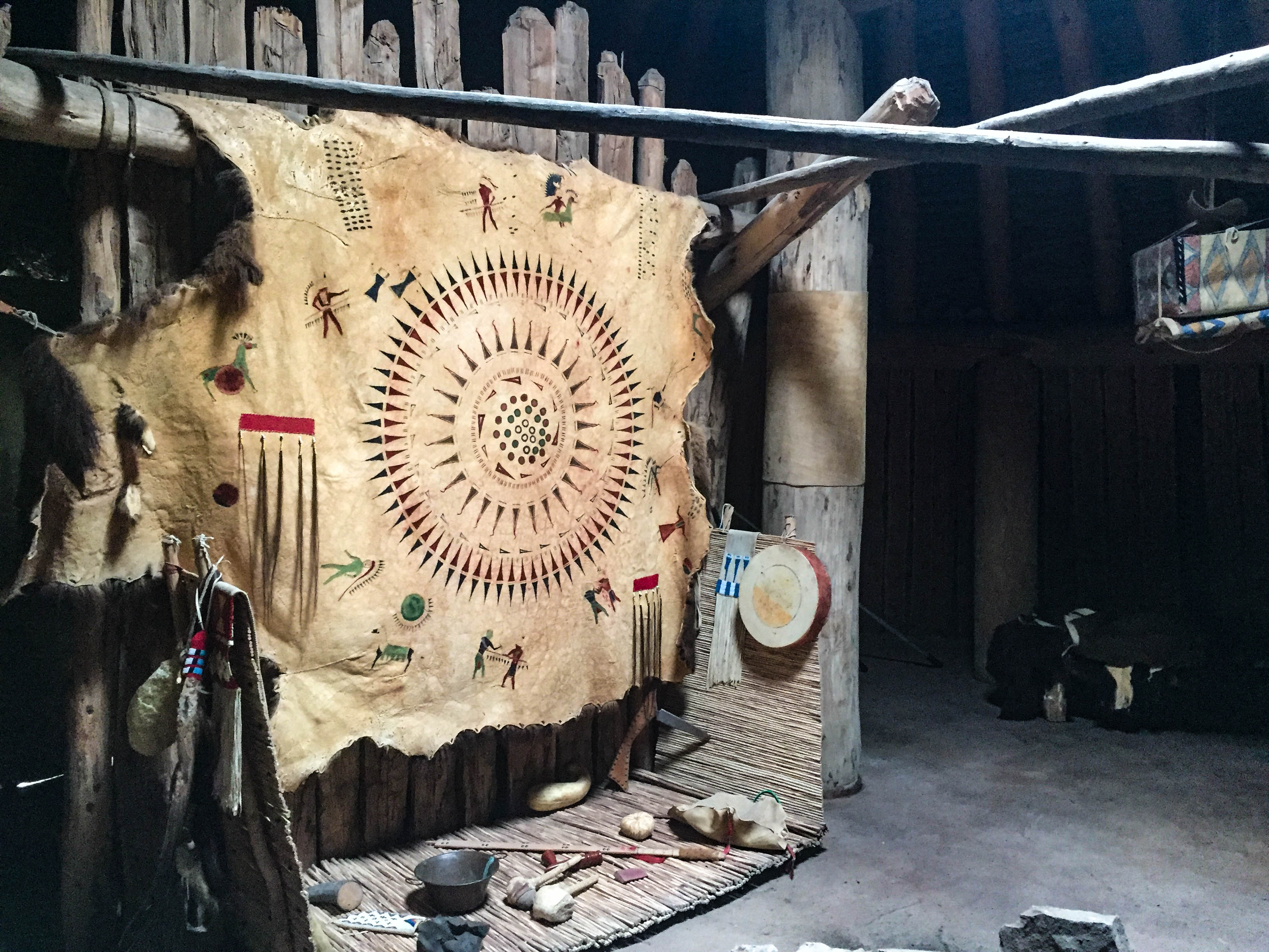 Various Native American items on a mat underneath a hanging animal hide decorated with paintings Earthlodge and interior Keywords: Knife River Indian Villages National Historic Site; Knife River Indian Villages; KNRI; North Dakota; American Indians; Northern Plains Indians; Hitdasa; Mandan; Arikara; Upper Missouri River; archeology; archaeology; earthlodge